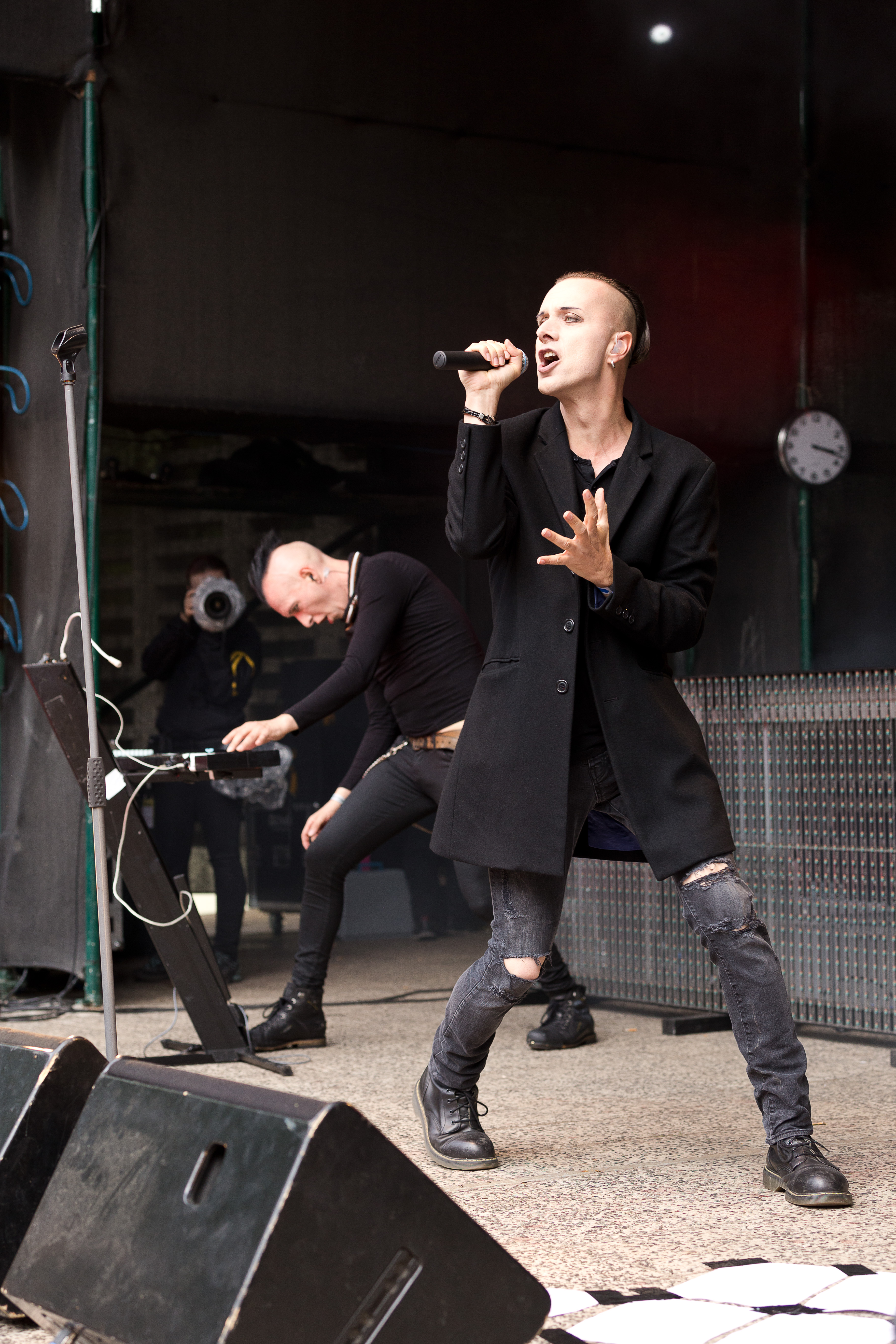 The German electro pop band Solar Fake at the Nocturnal Culture Night 10 2015 in Deutzen/Germany.